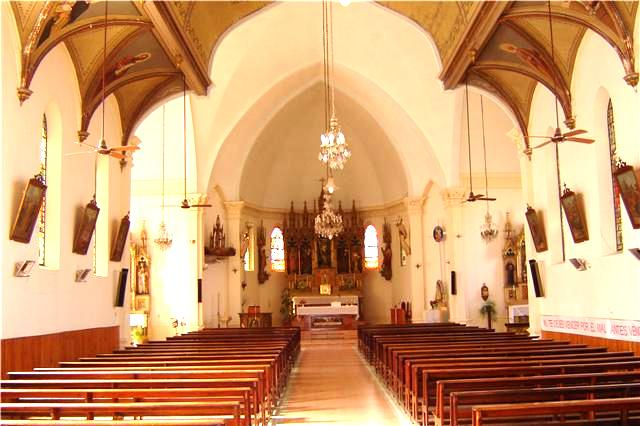 Church of San Miguel Arcángel, Buenos Aires Province, Argentina (Volga German colony)